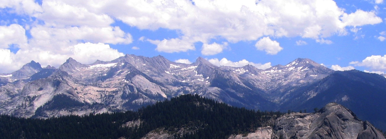 The Kaweah peaks of the Sierra Nevada, from the west. The rightmost, southernmost peak is Mount Kaweah, 4205 m. To the north, in the center, are Red Kaweah and Black Kaweah, 4196 m. On the left, northmost, is Triple Divide Peak, 3850 m.